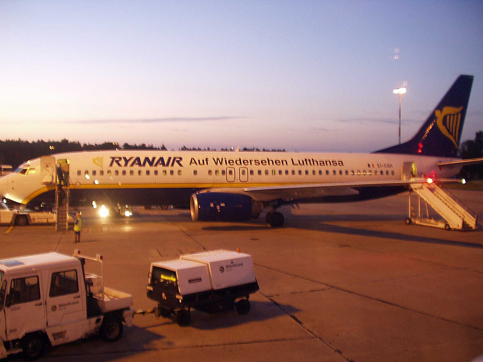 Ryanair Boeing 737-800 in Berlin-Schönefeld, notice the special message (Good bye, Lufthansa) Author: Ralf Roletschek (User:Marcela) Kamera: Olympus C-220